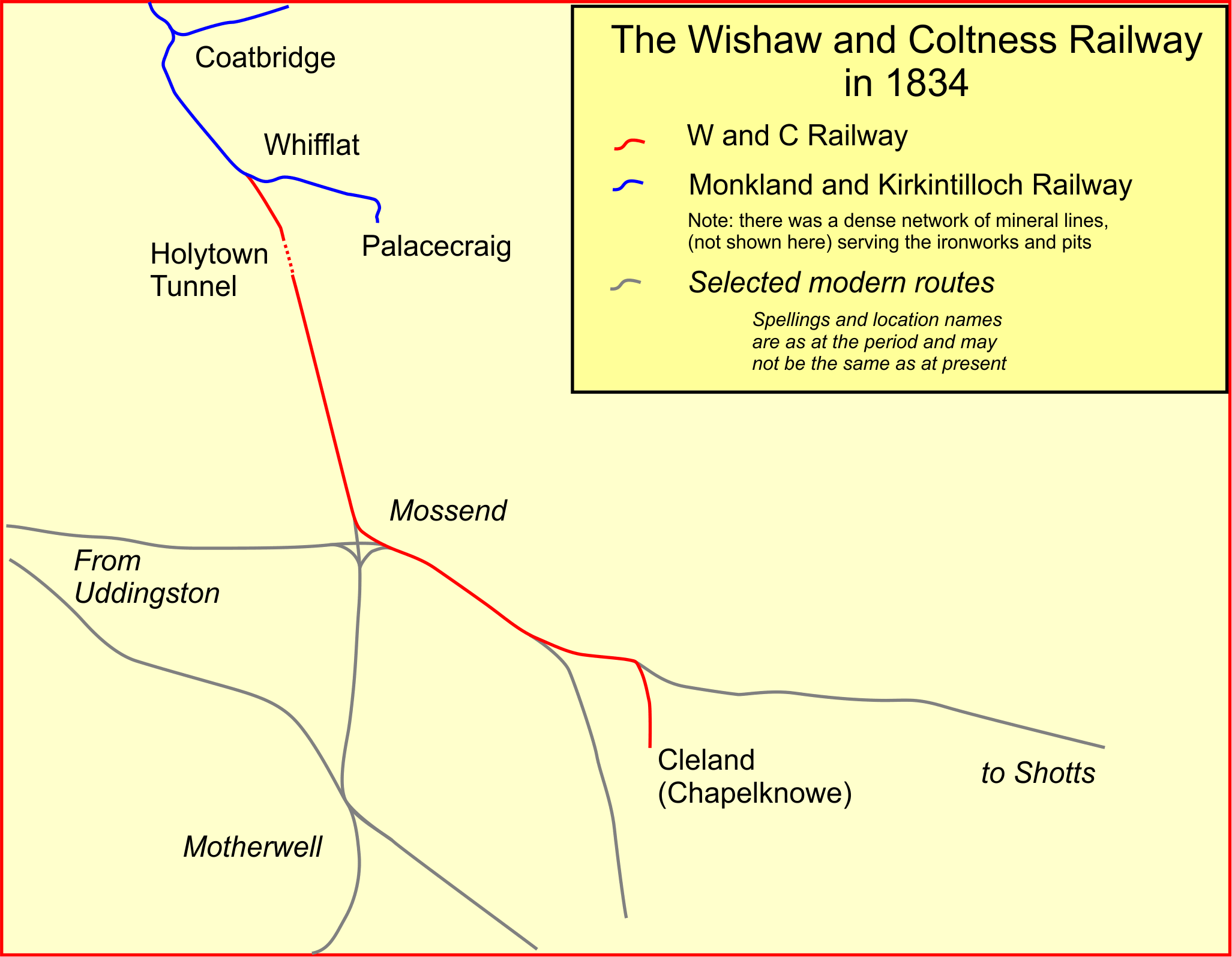 System map of the first route opened by the Wishaw and Coltness Railway, Scotland